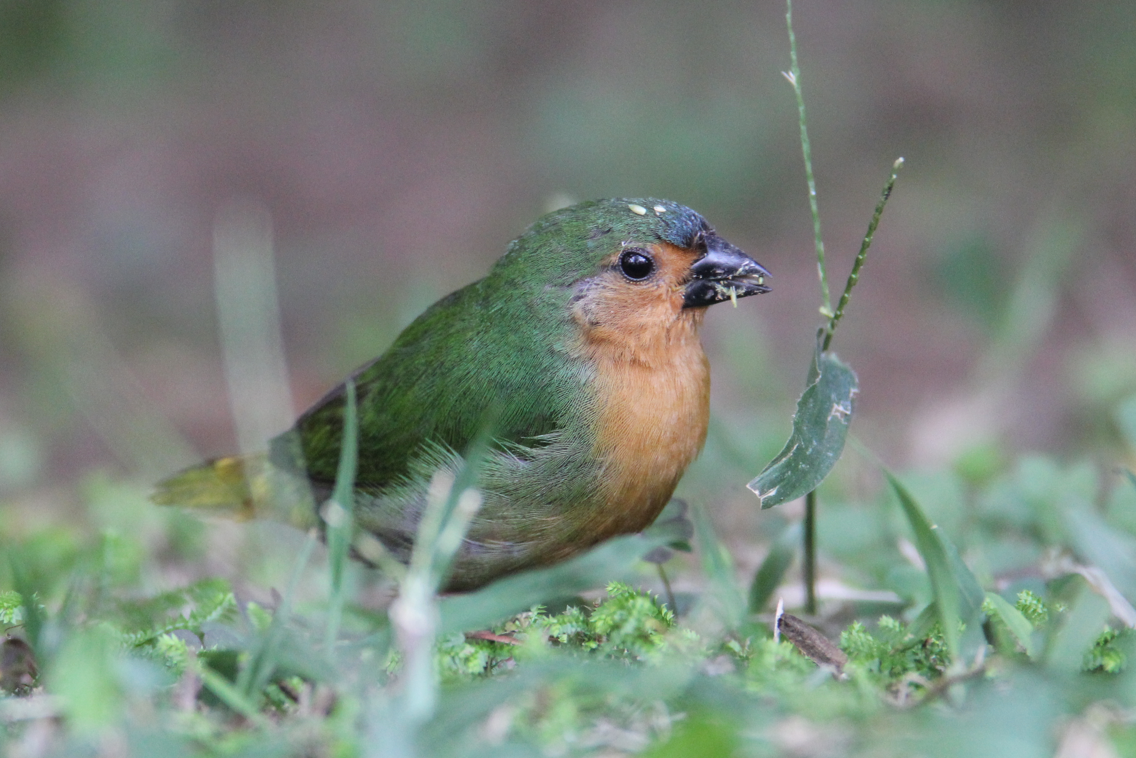 Photographed at Cibodas Botanical Garden, West Java, Indonesia